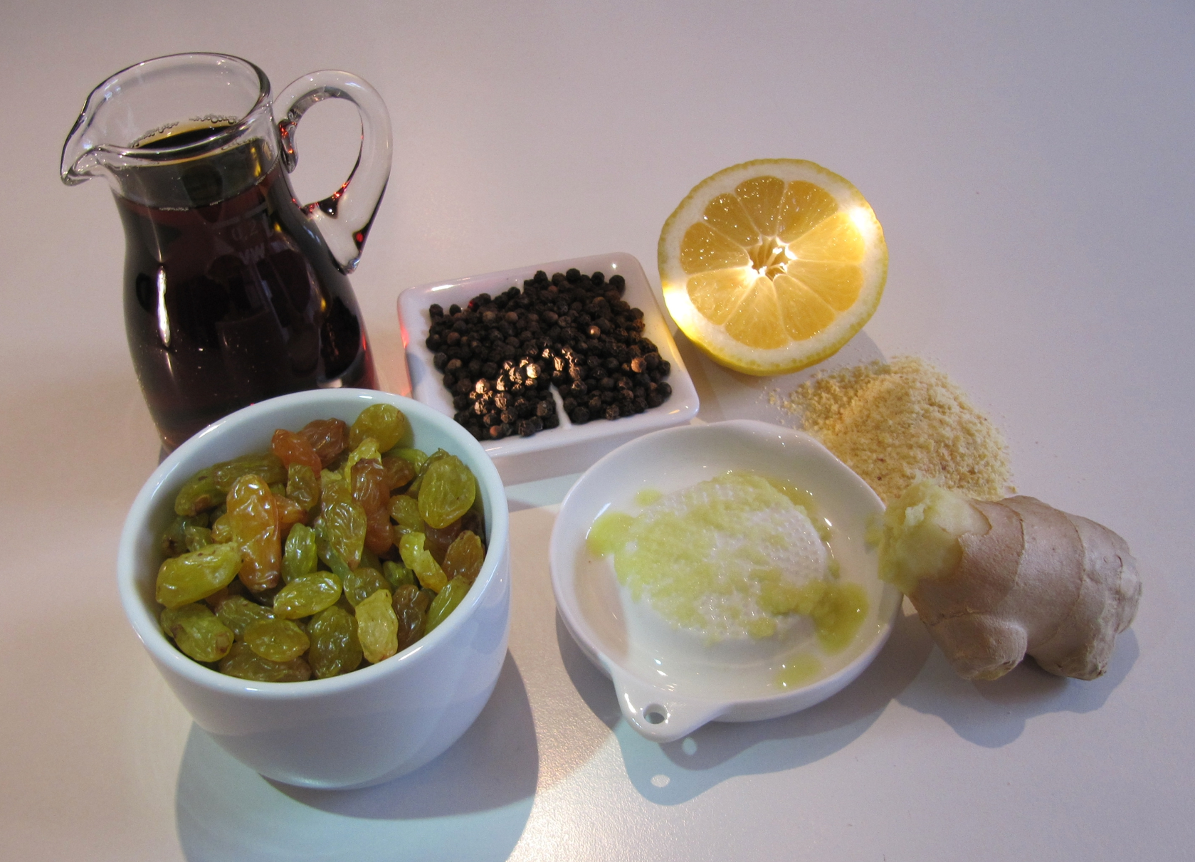 Ginger wine ingredients